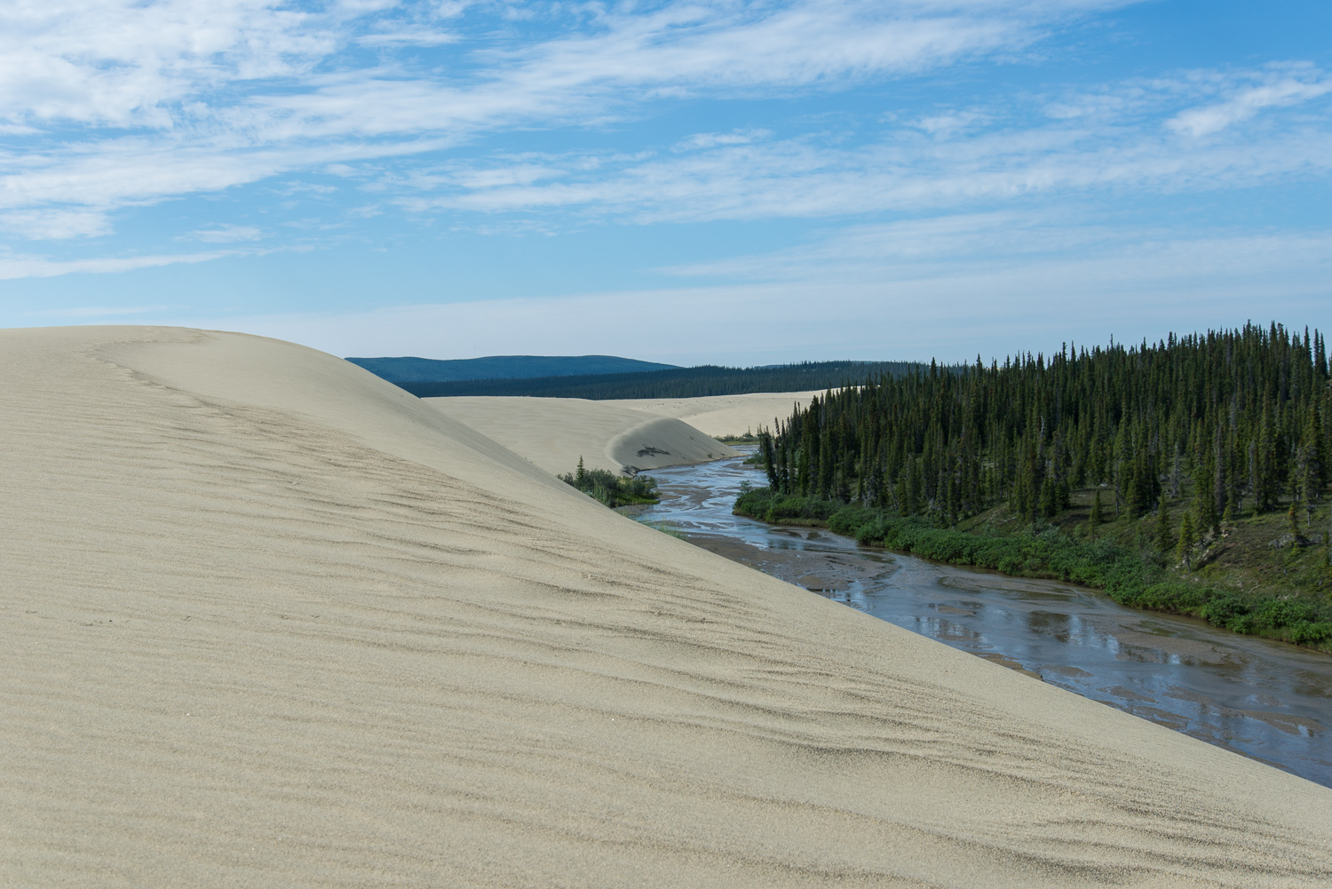 The Great Kobuk Sand dunes located in the Kobuk Valley National Park in northwestern arctic Aalaska.